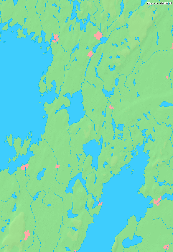 Tiveden, a forest and lake district in Sweden. The district is limited by lakes Vänern (left) and Vättern (right) and the arable plains of Västergötland (South) and Närke (North). At the center are the three lakes (North to South) Skagern, Unden and Viken. Bounding box West 13.6°, South 58.3°, East 15.2°, North 59.5°. Center at 58°54′00″N 14°24′00″E / 58.90000°N 14.40000°E.